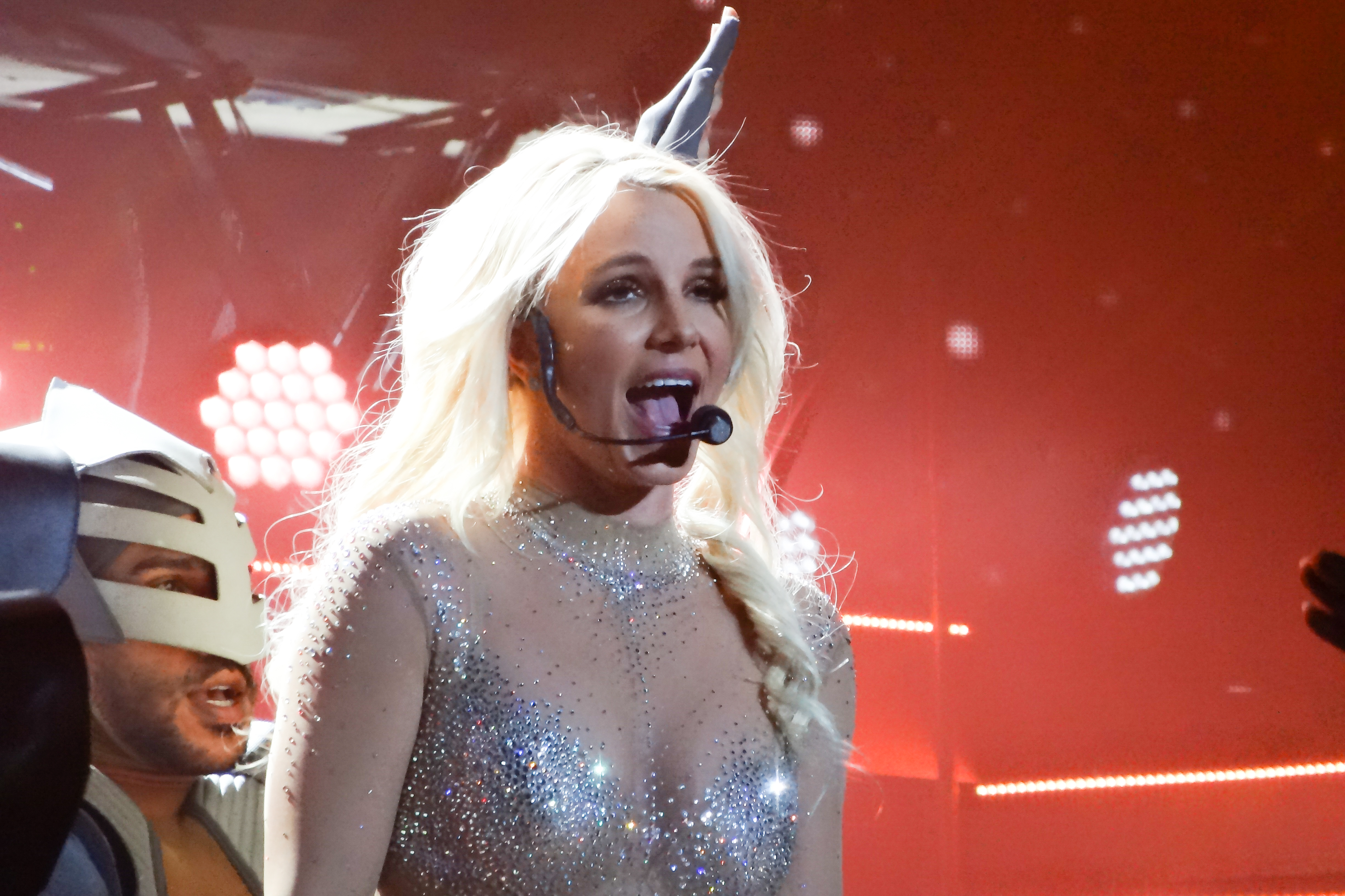 Womanizer